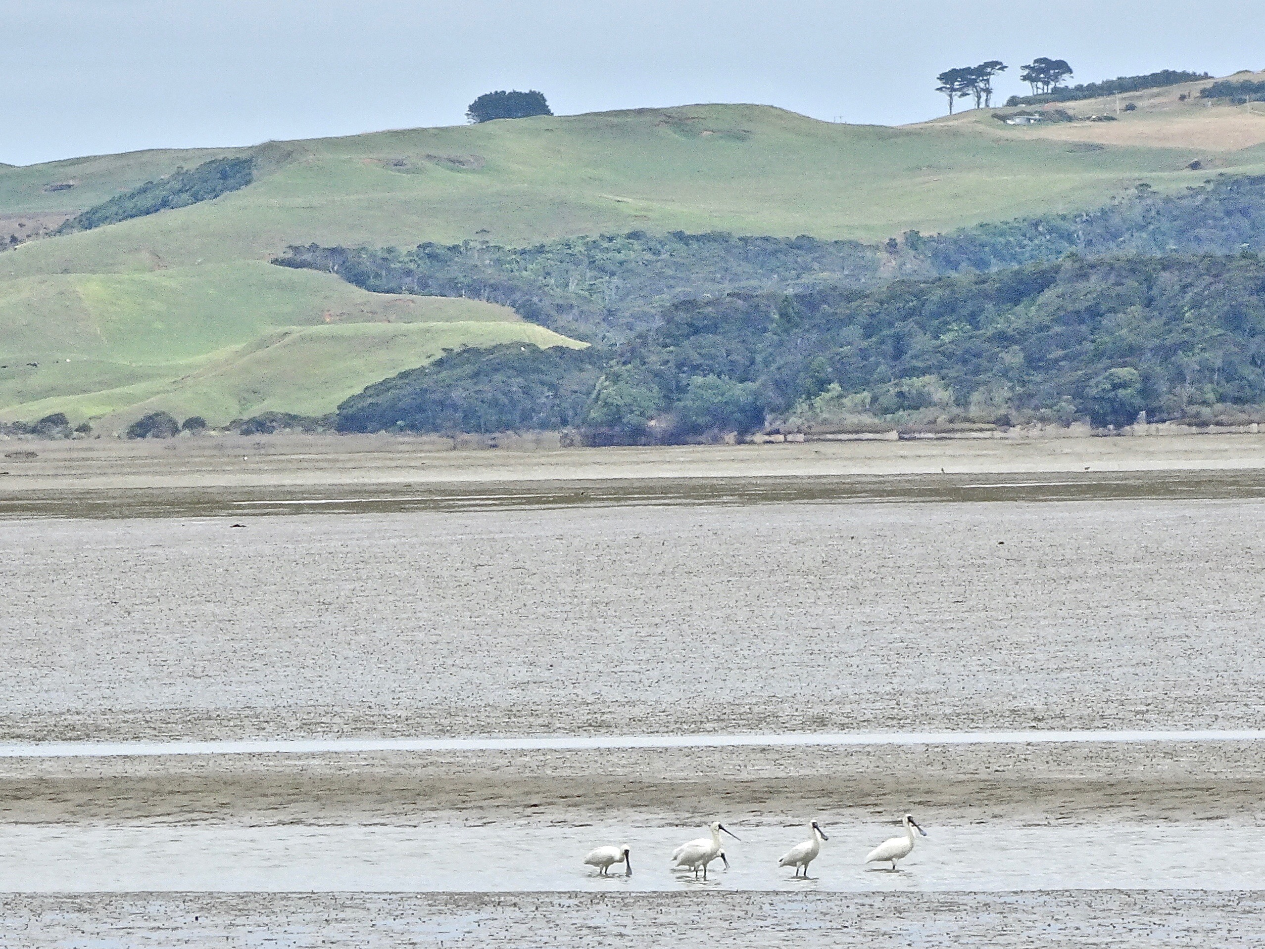 There are also many black swans